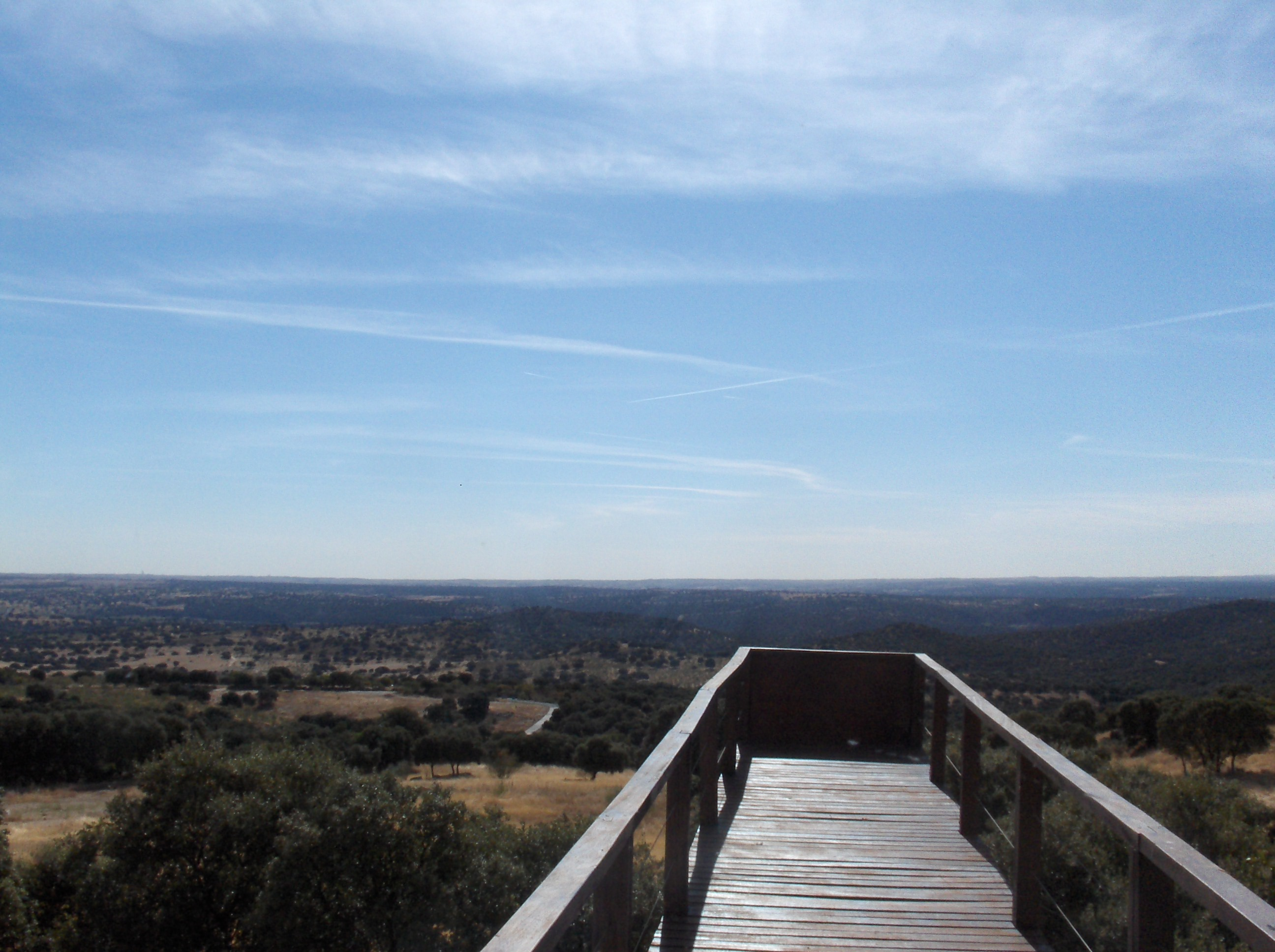 View of Chapinería woods from de Environment Centre El Águila